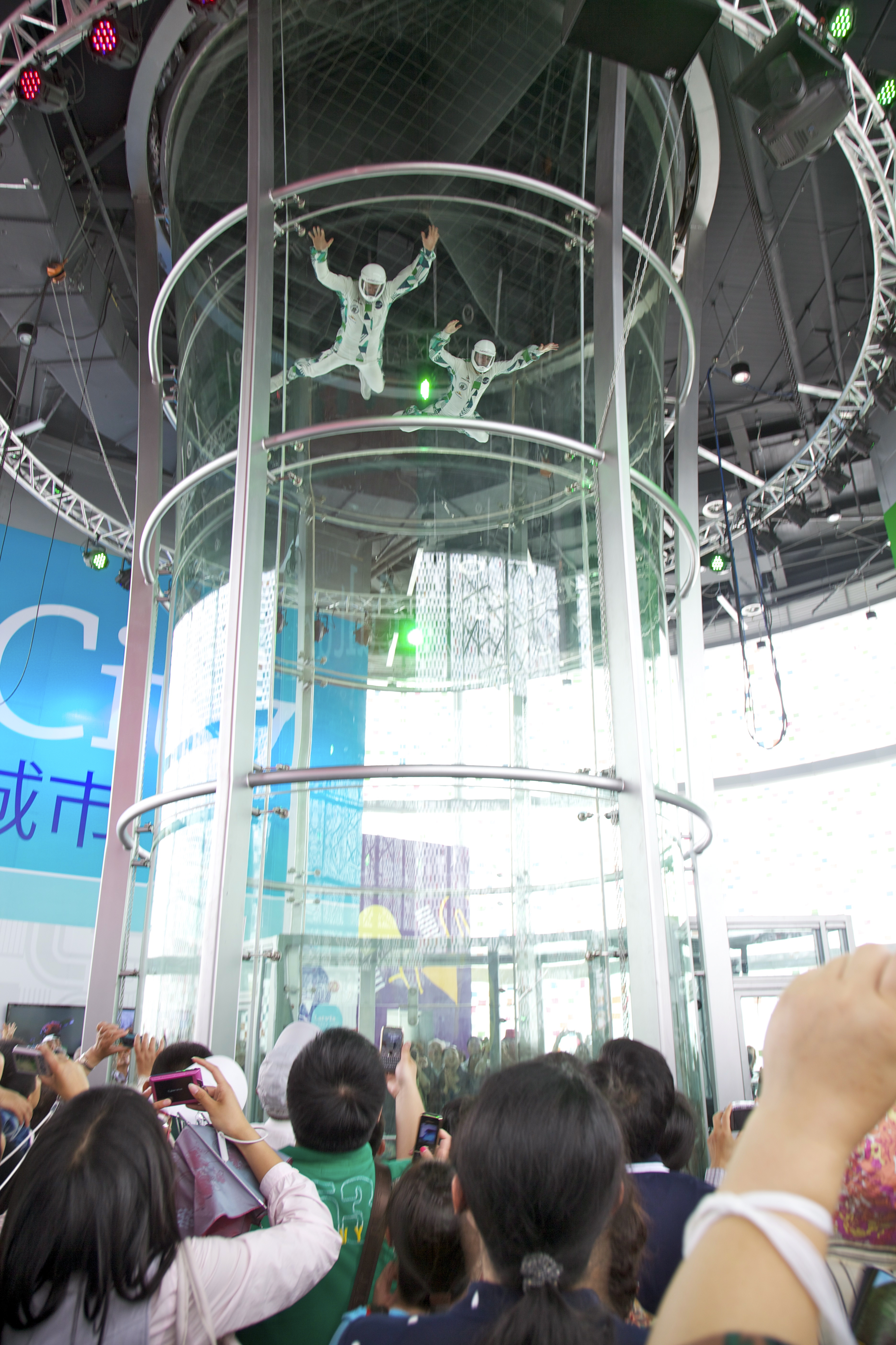 Aerodium vertical Wind tunnel at World EXPO 2010, Shanghai